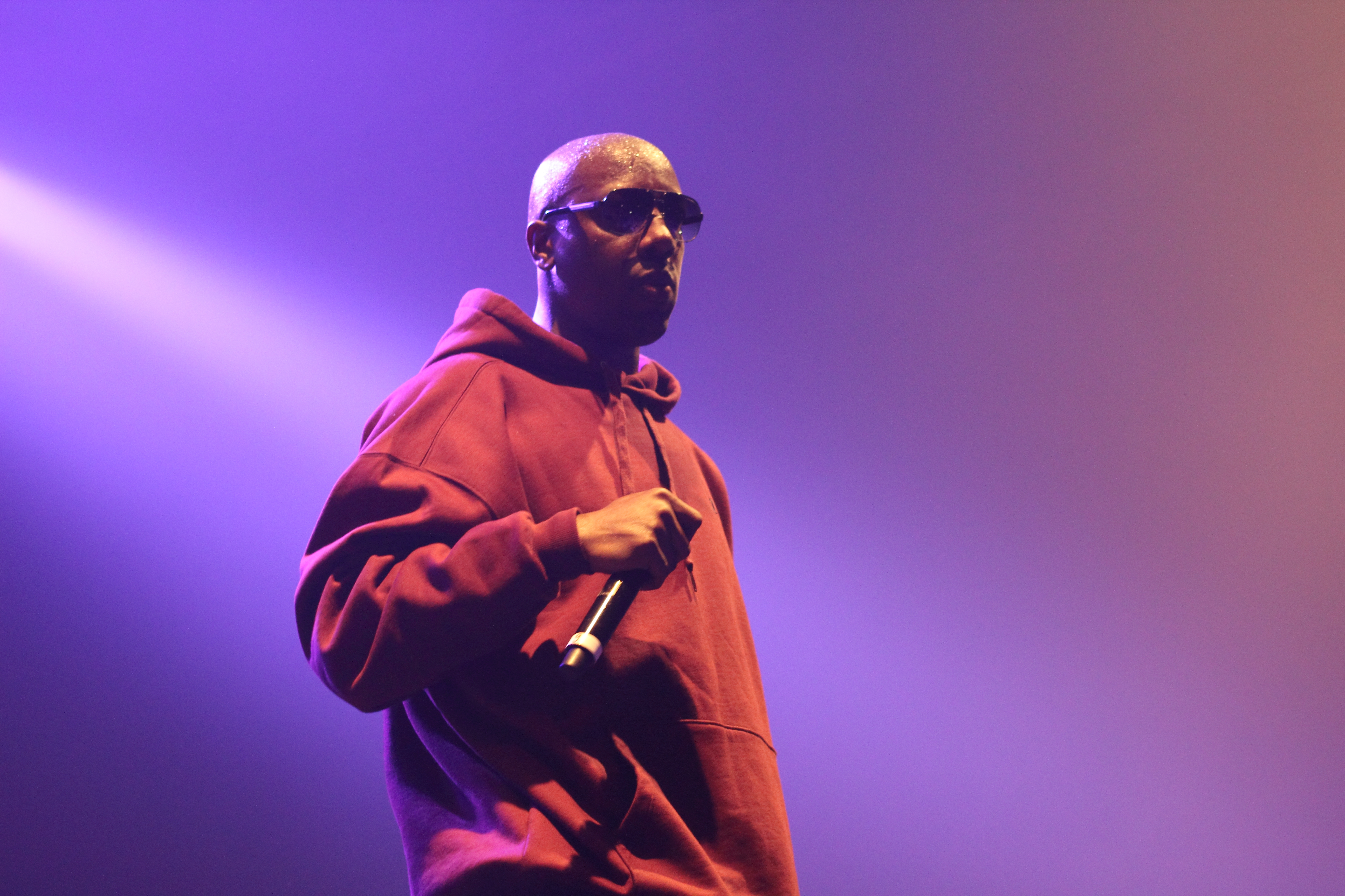 Inspectah Deck in Paris, 2013